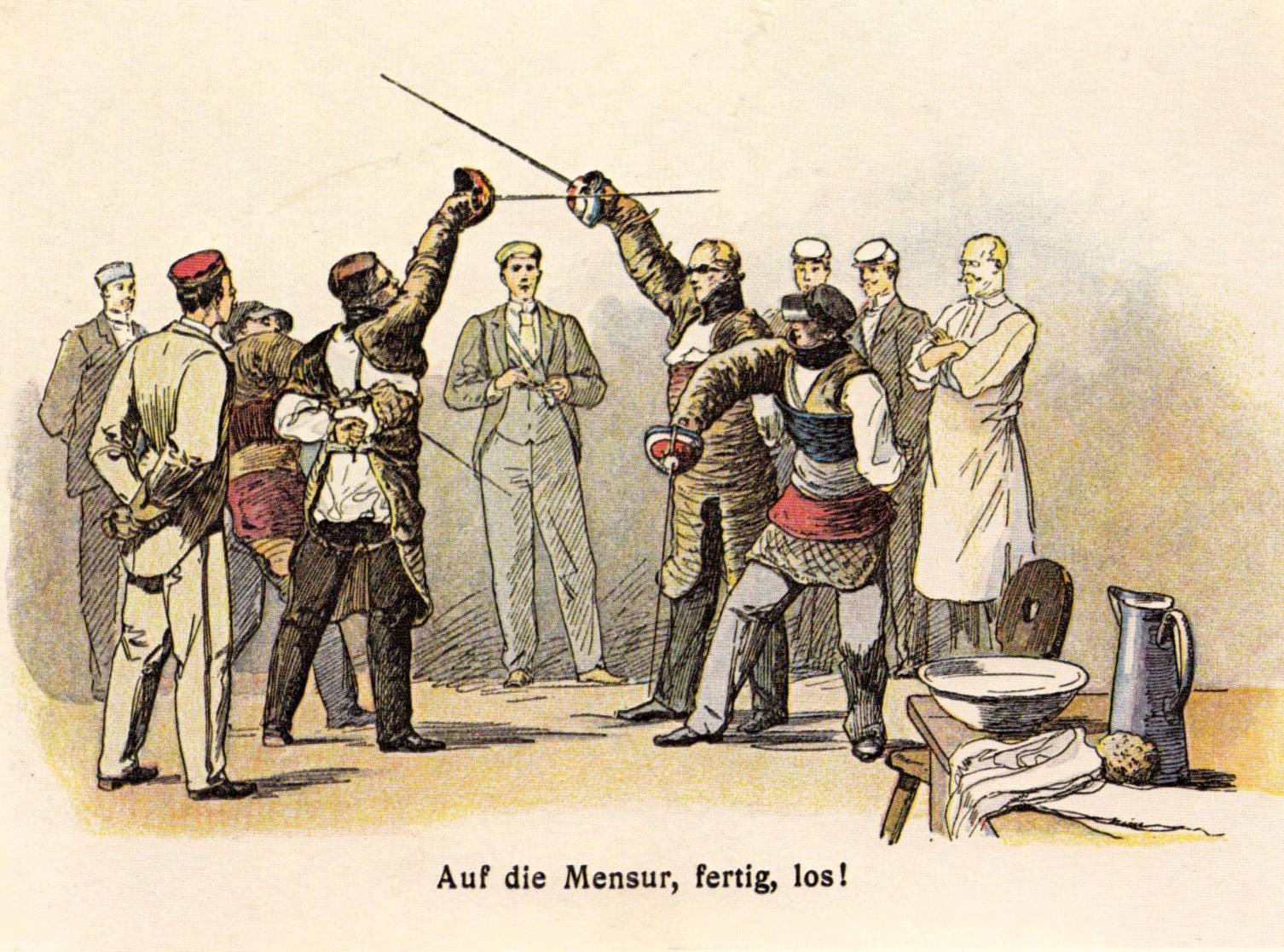 Schlägermensur, Würzburg c.1900 (Coburger Convent)